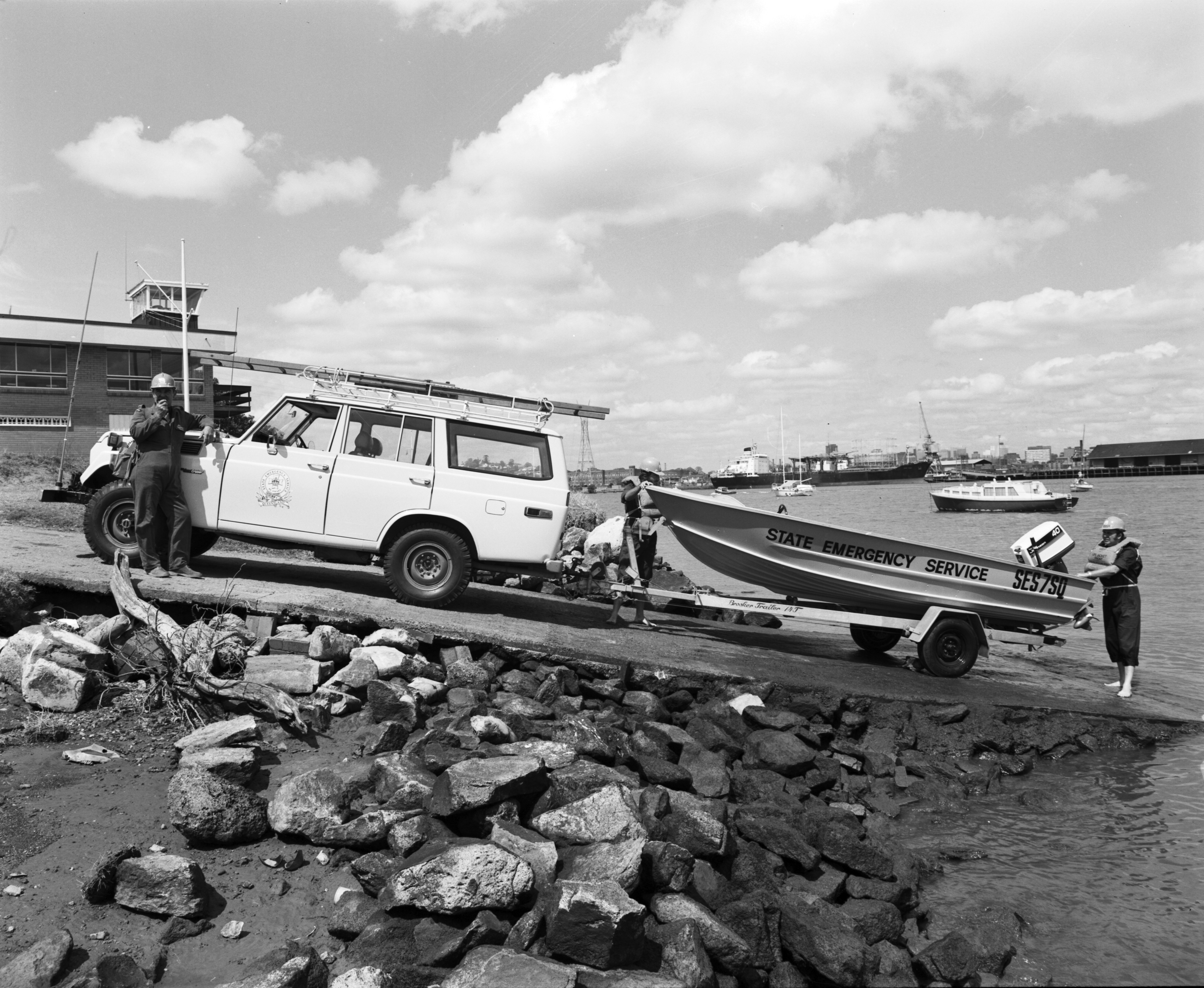 State Emergency Service training, Brisbane River, c 1976, at the end of Quay Street, Bulimba, looking south-west to Newstead/Teneriffe